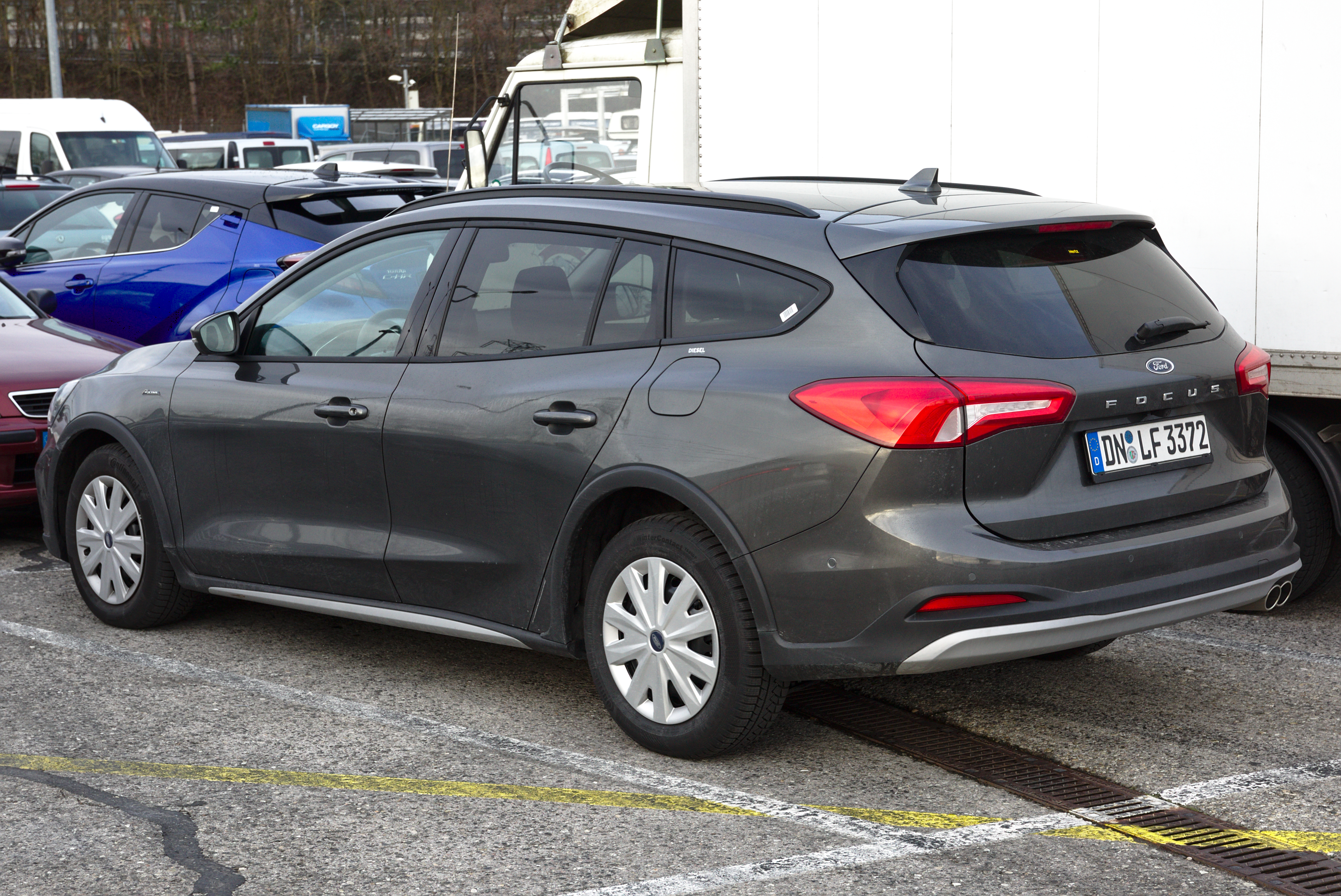 Ford Focus Turnier Active